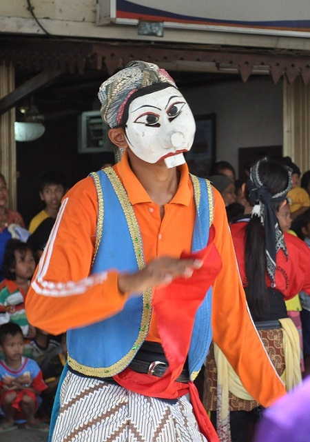 cepet penthul